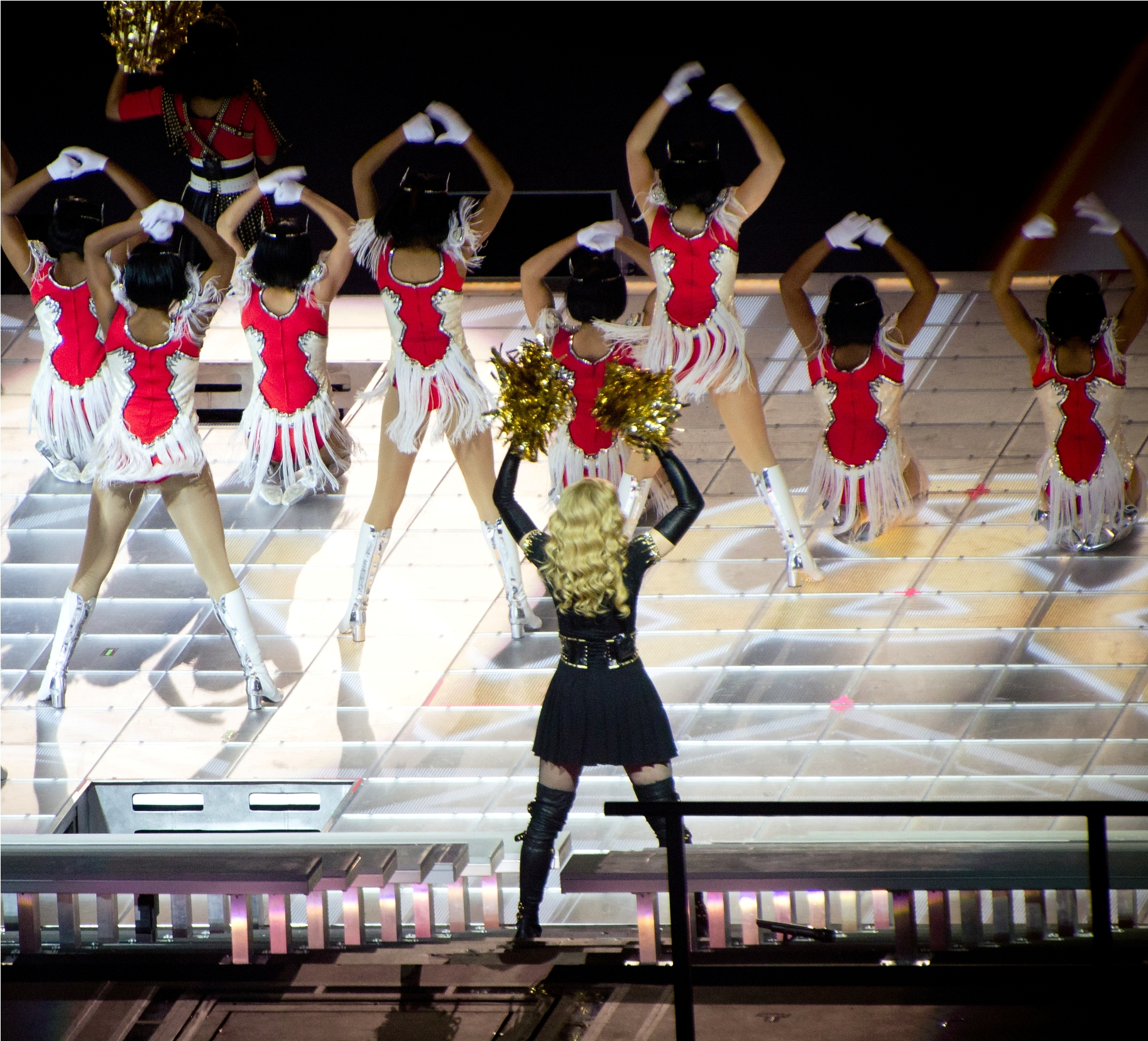 Madonna performing "Give Me All Your Luvin'" at the Super Bowl Half Time Show 2012